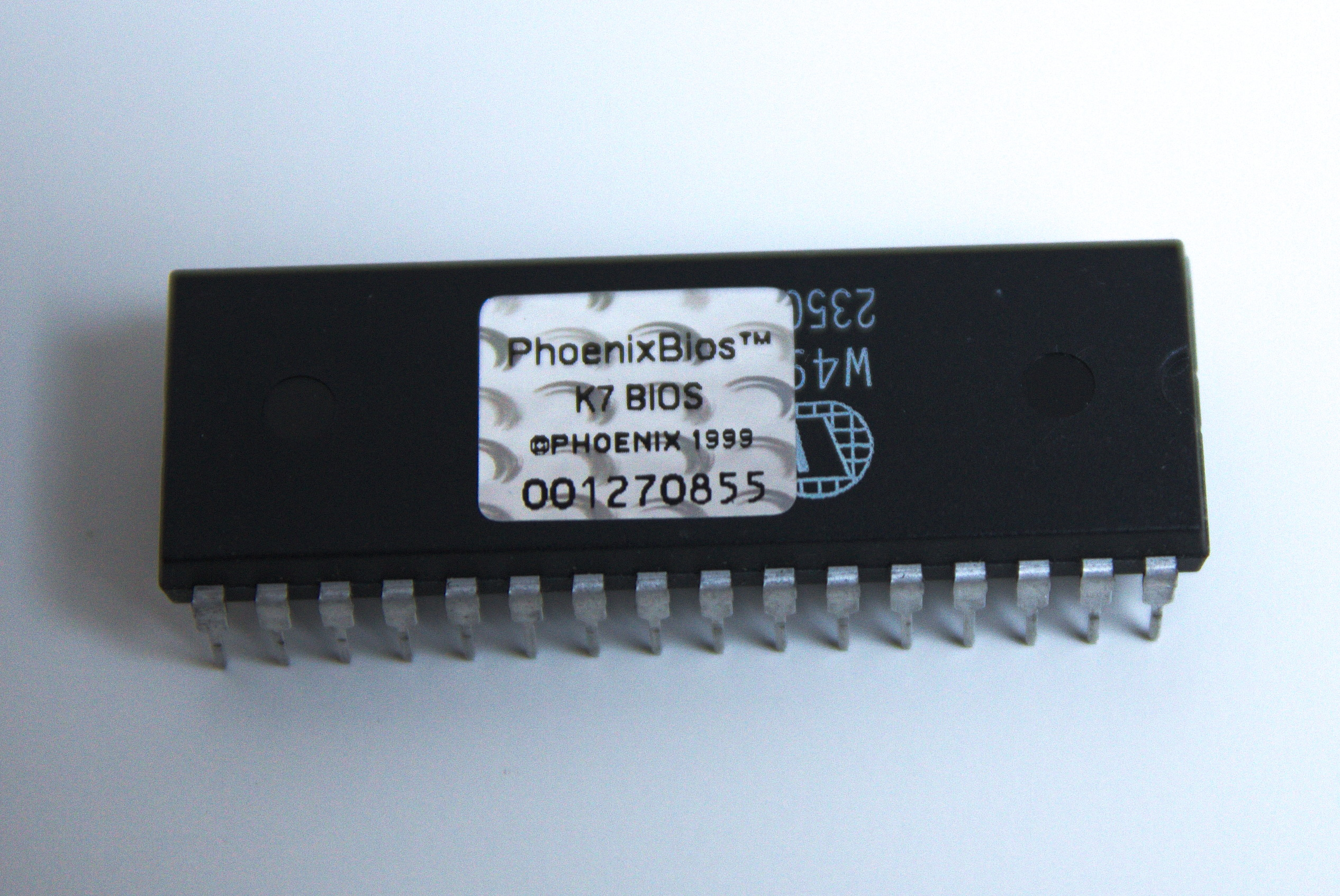 PhoenixBios K7.